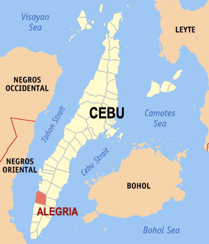 Map of Cebu showing the location of Alegria